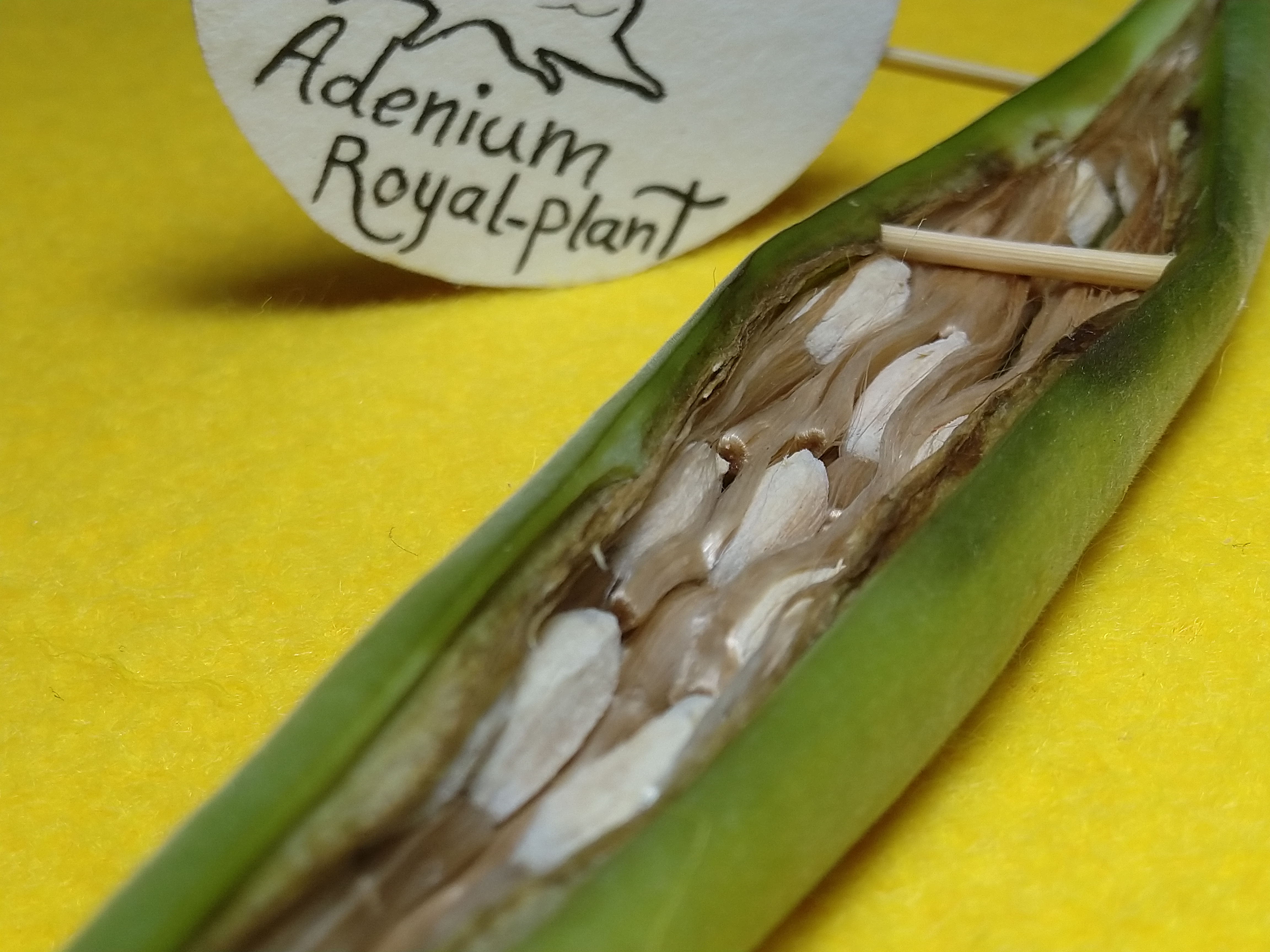 adenium seeds